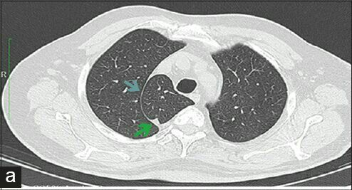 A